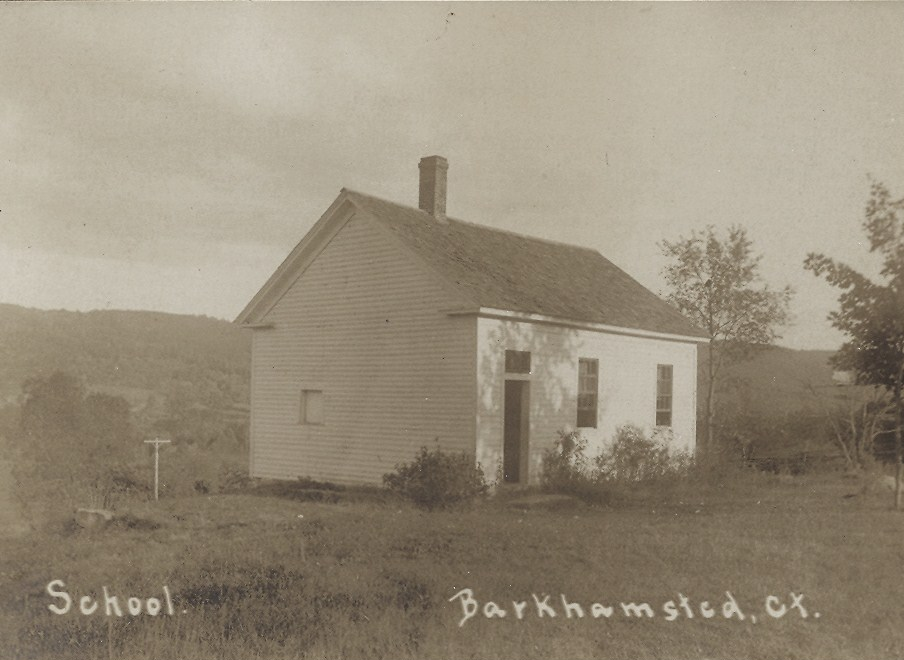 Postcard picture of a school (not identified) in Barkhamstead, Connecticut, USA. Store Web page states: "Circa 1908"